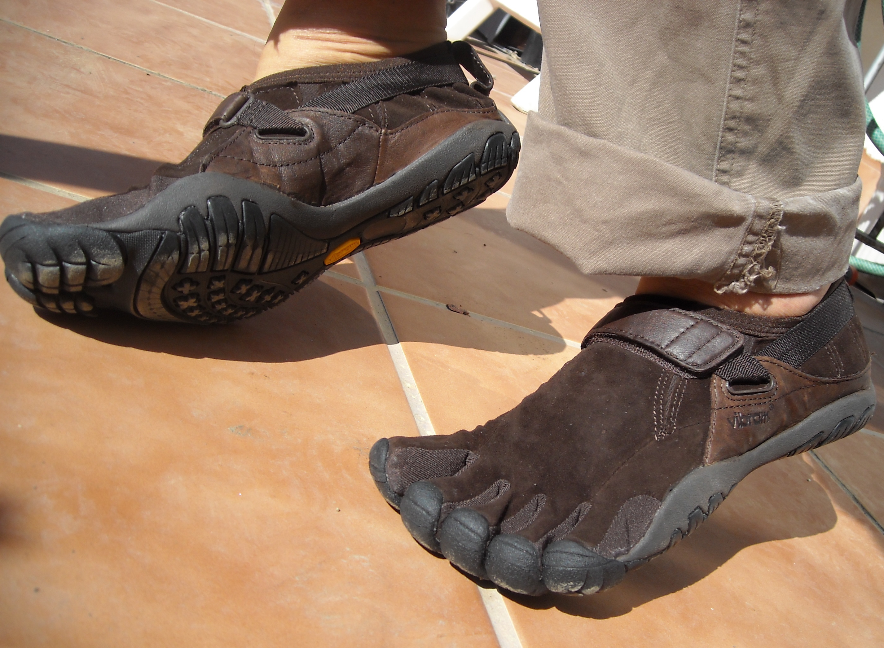 Vibram FiveFingers KSO Trek Brown/Black. Size: M40. Upper fabric: kangaroo leather K-100 and polyamide. Sole: TC-1 rubber. Footbed: kangaroo leather. Colors: upper leather in auburn, sole in black and sepia, straps in rosewood, closure leather in chocolate. Batch summer 2010 with Velcro detachable straps.